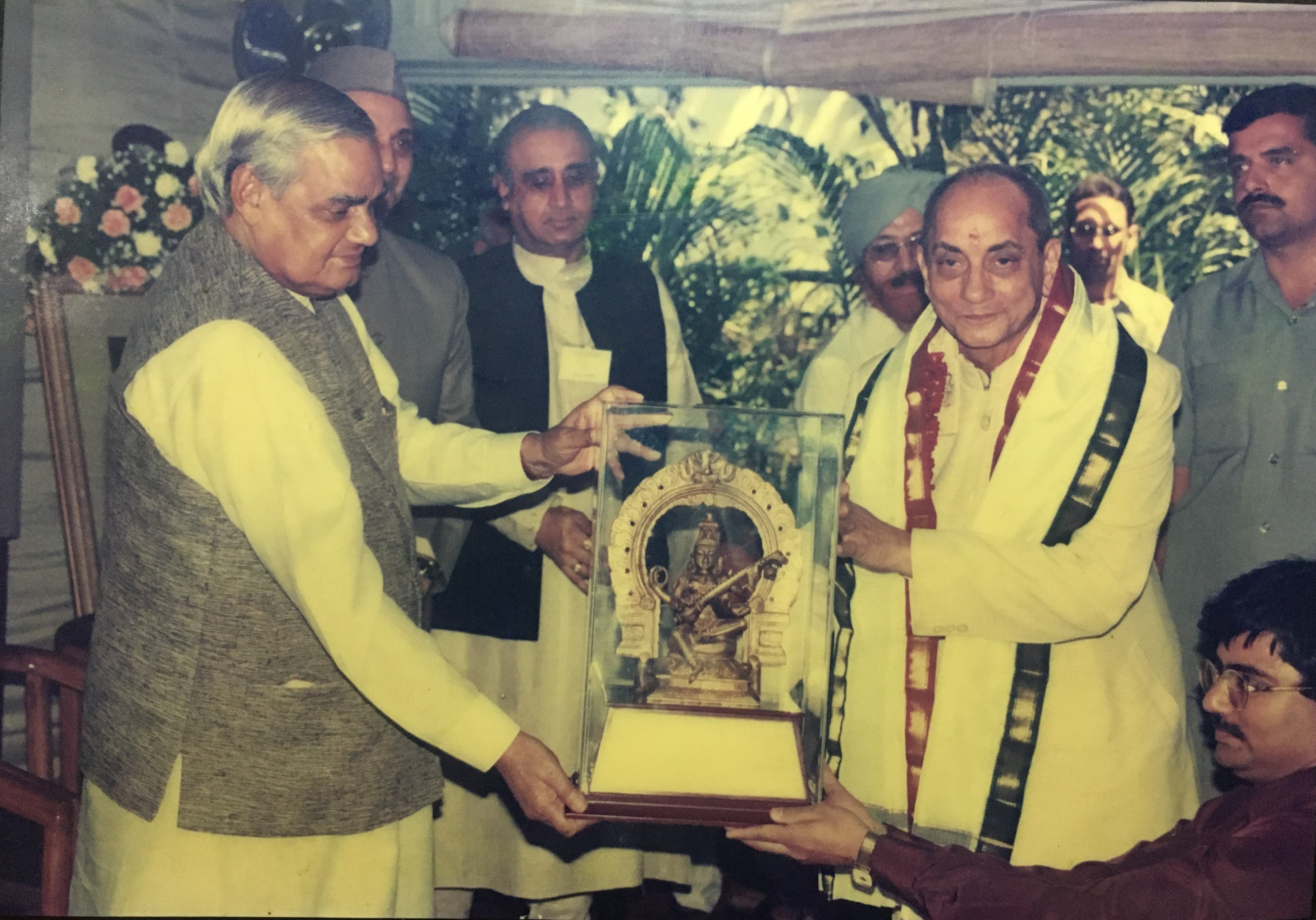 One of India's prominent literary awards, Srivani Alankarana, instituted by the Dalmiya Foundation, being conferred upon Acharya Rewa Prasad Dwivedi by the then Prime Minister of India Atal Bihari Vajpayee, who himself is a Bharata Ratna awardee